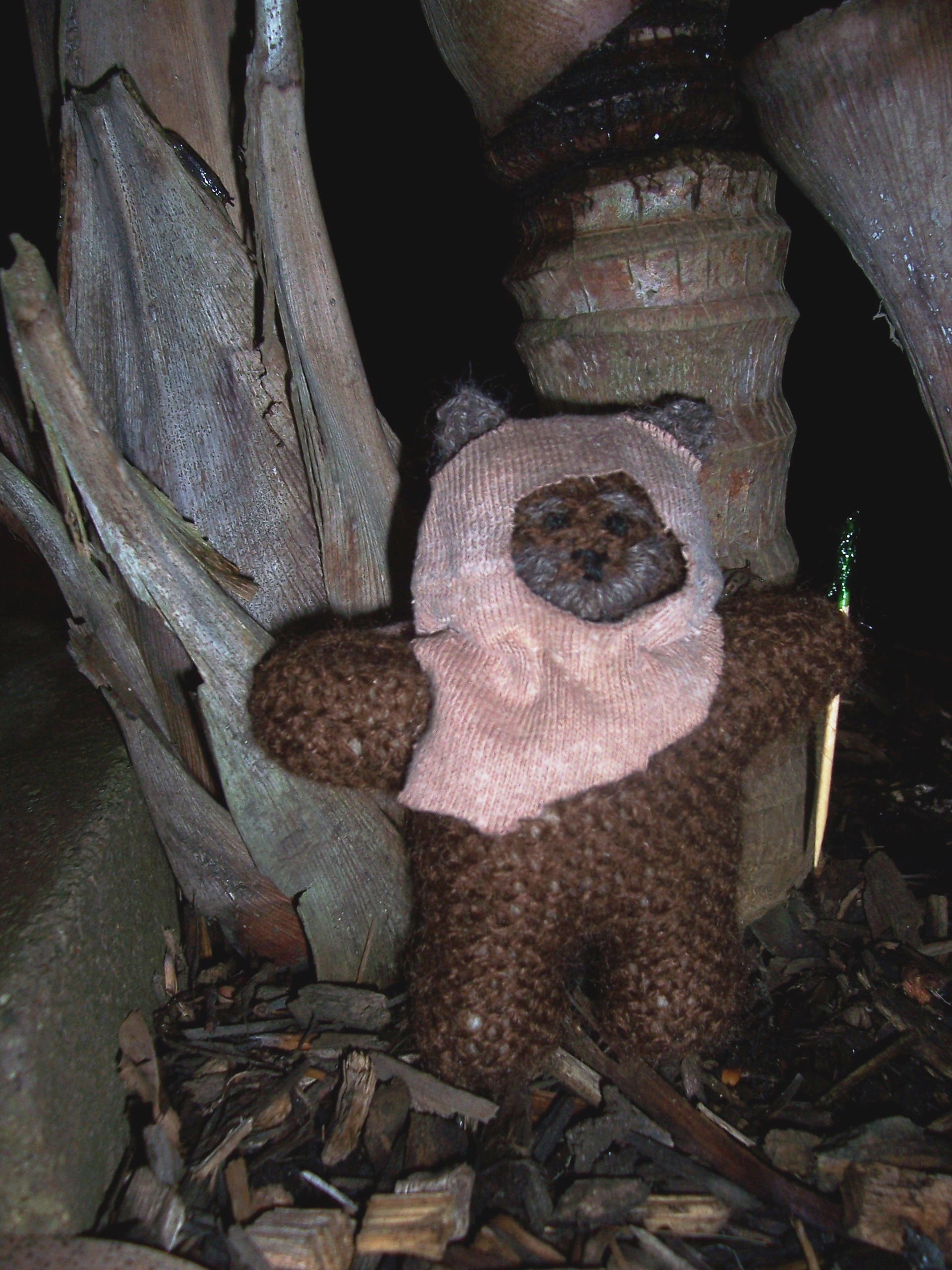 It's getting to be a tradition. Sadly he's not to scale with the Dewback.